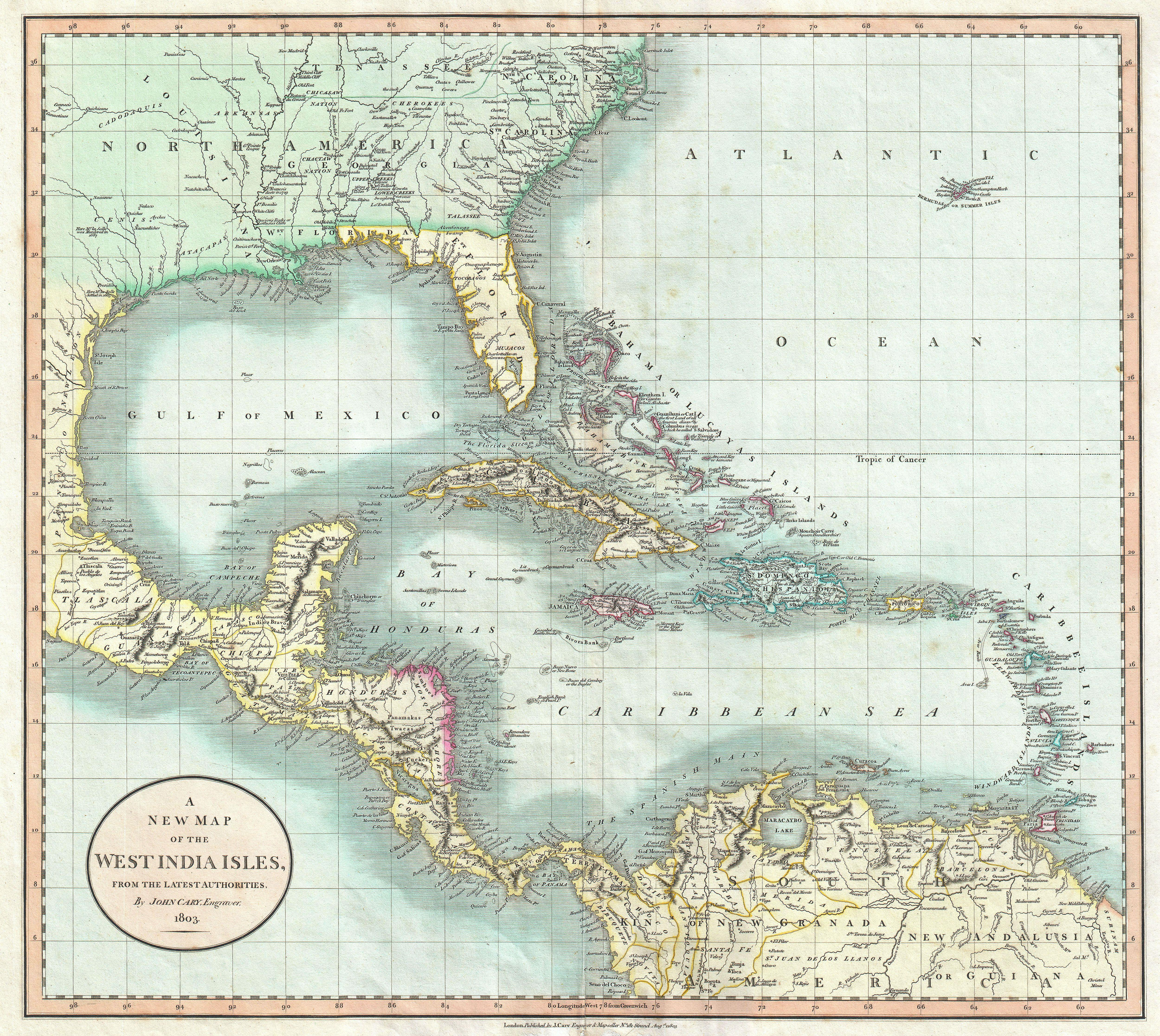 A beautiful example of John Cary’s important 1803 map of Florida, Central America and the West Indies. Covers from Texas (called Cenis) eastward to the Carolinas and the Bahamas, and then southward past Florida and the West Indies to include all of Central America and the northern part of South America. Offers superb detail throughout, especially regarding Florida and the Caribbean. In the North America section of the map Georgia is shown extending westward as far as the Mississippi River despite the creation of the Mississippi Territory in 1798. Florida is divided at the Apalachicola River into eastern and western sections. West Florida, ostensibly part of the Louisiana Purchase, was claimed by the Spanish and remained under their control until 1812. Lists numerous place names along the Mississippi River including Davion’s Rocks, Ft. Bosalie, Ft. Francis (destroyed in 1729), New Madrid and Old Fort, among others. In modern day Texas, called Cenis here, Cary lists eight place names as well as both the 1685 settlement founded by La Salle on the Gulf coast, and the place further inland where, in 1687, he was murdered. All in all, one of the most interesting and attractive atlas maps of the West Indies to appear in first ten years of the 19th century. Prepared in 1803 by John Cary for issue in his magnificent 1808 New Universal Atlas .